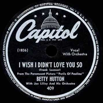 Capitol Records 409 label for the 1947 release of "I Wish I Didn't Love You So" by Frank Loesser, introduced by Betty Hutton in the film The Perils of Pauline (1947)